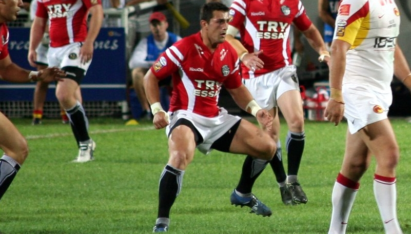 Ben Flower